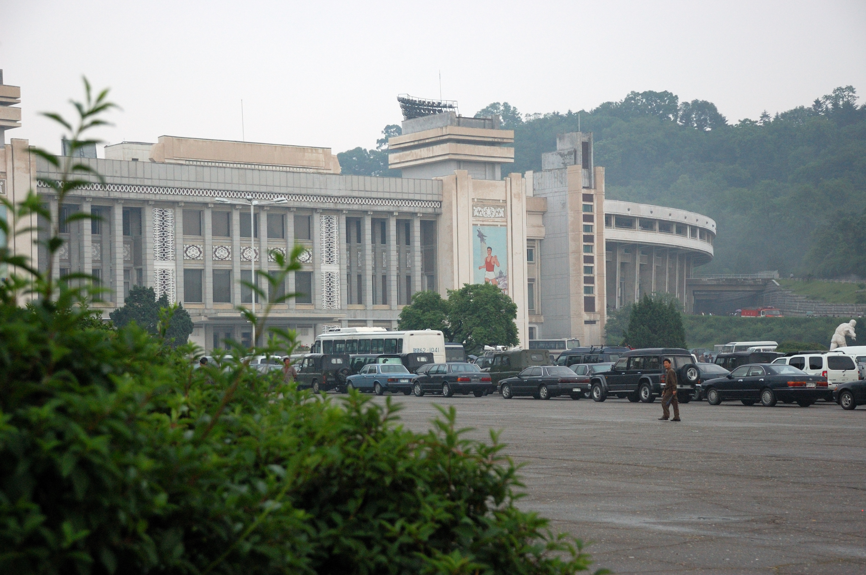 Trip to North Korea in June, 2008